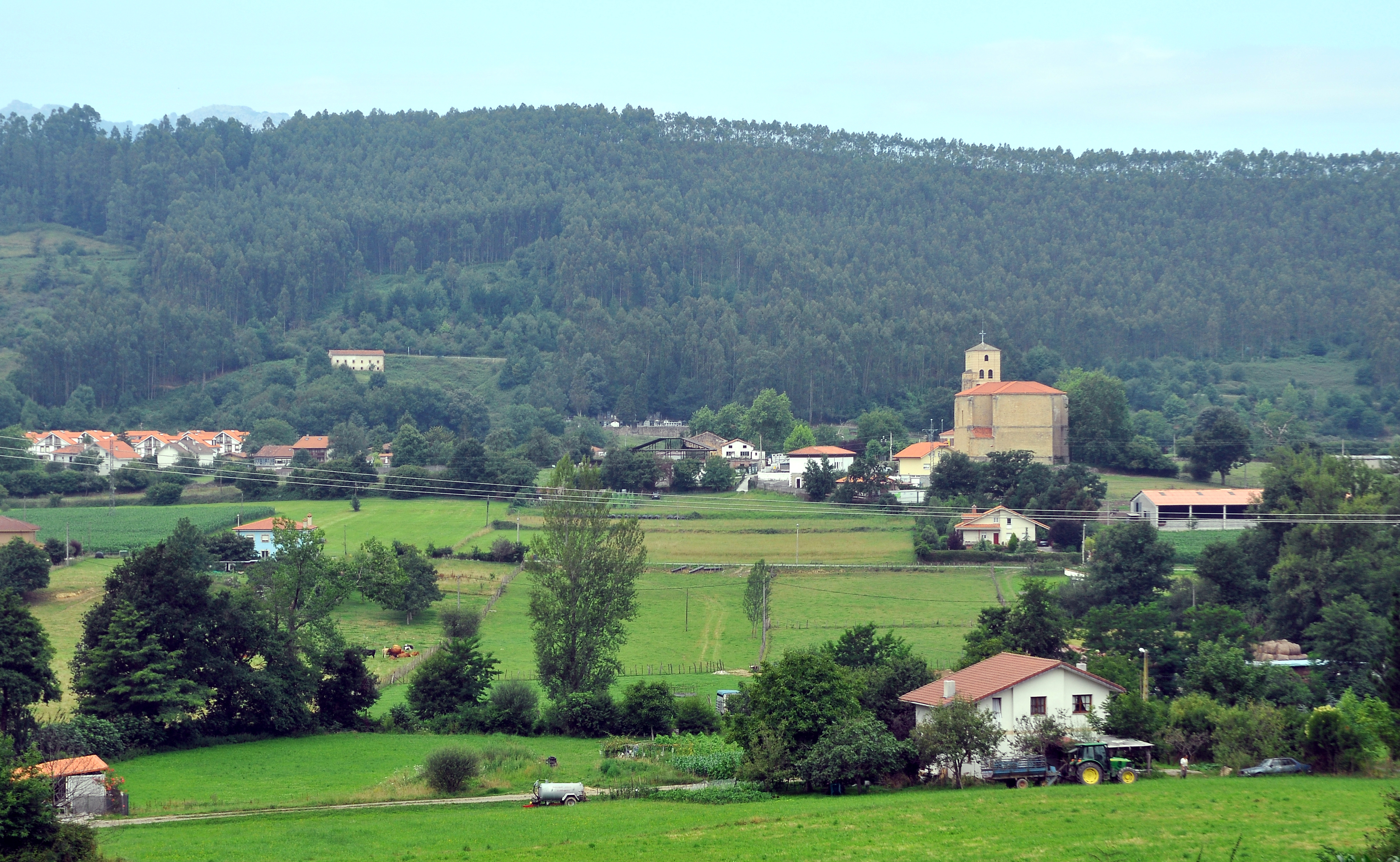 The village and its surroundings. Rasines, Rasines, Cantabria, Spain